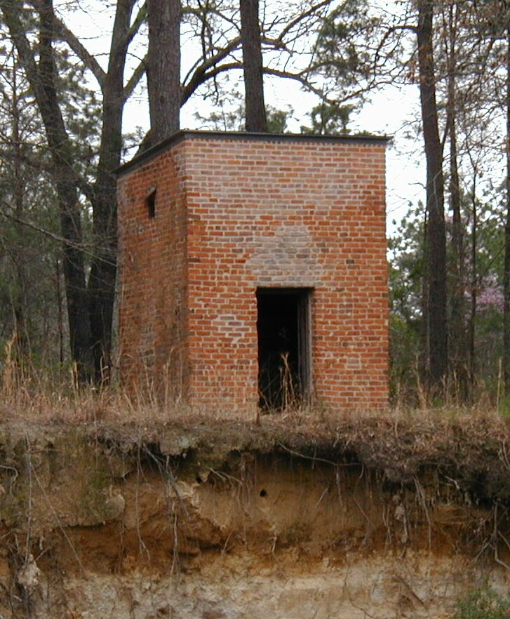 Jefferson Ordnance Magazine